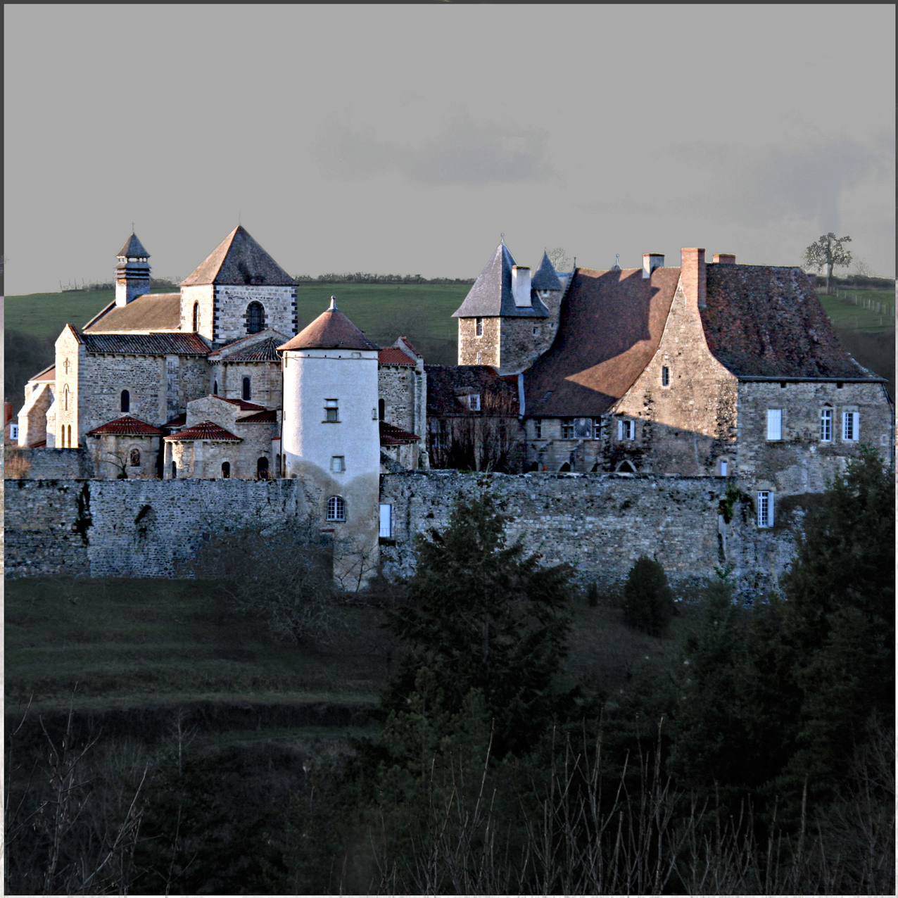 Abbey of Chantelle, Allier, Auvergne, France, European Union